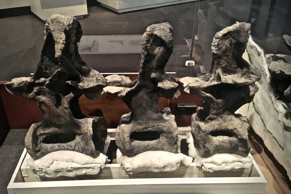 Brachiosaurus holotype dorsal vertebrae from the collection of the Field Museum of Natural History, Chicago, Illinois, USA